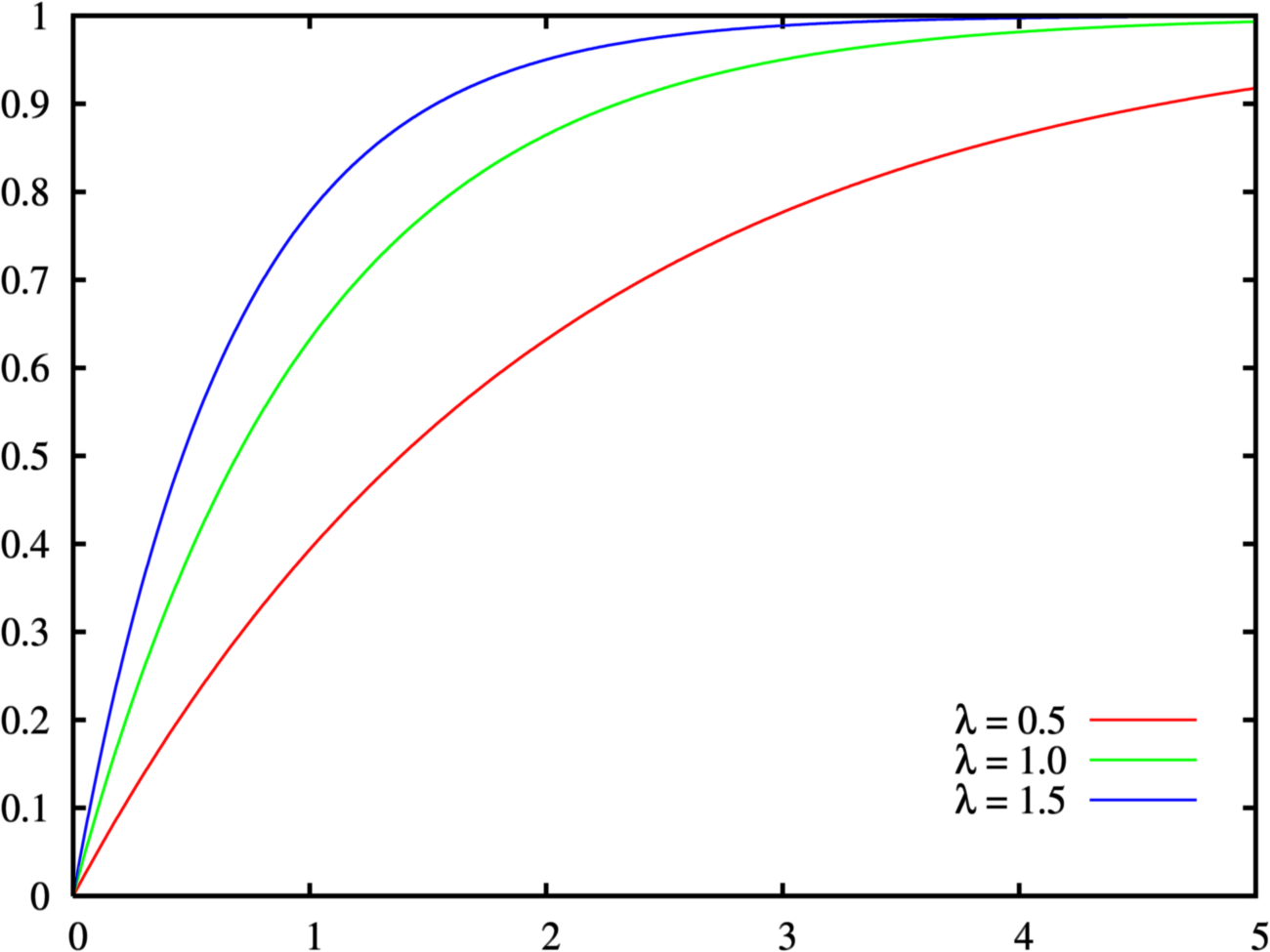 Cumulative distribution function of the exponential distribution